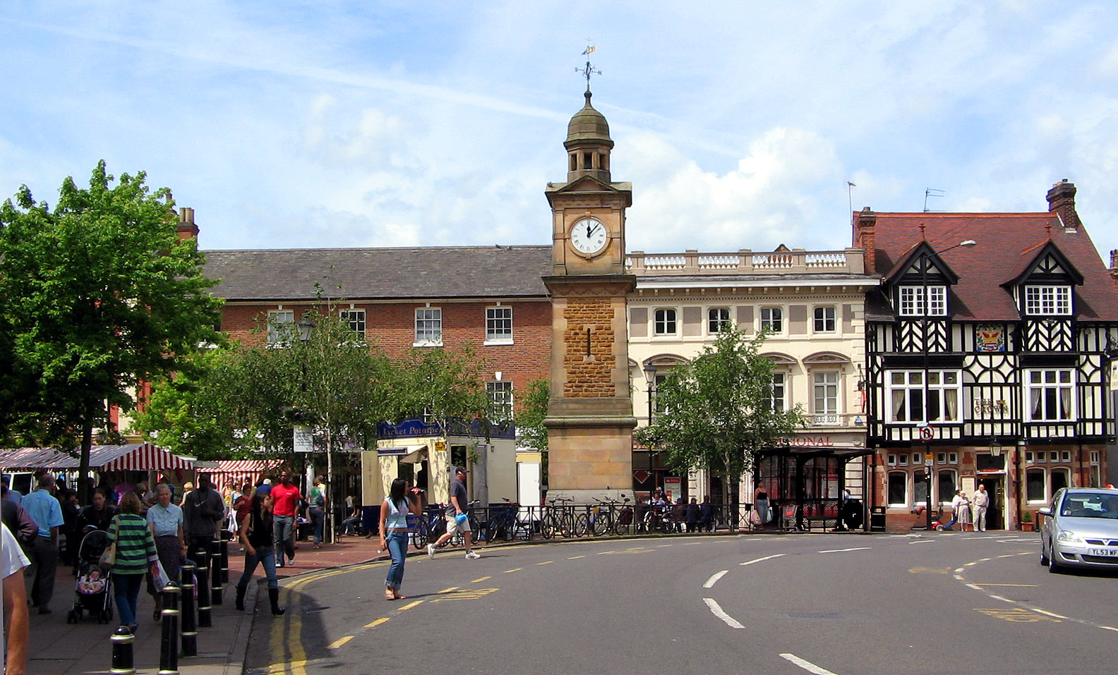 The town centre of Rugby. The clock tower in the centre dates from 1887 and was built to mark the golden jubilee of Queen Victoria. At the left of the picture is the market place. Taken by G-Man July 2005.